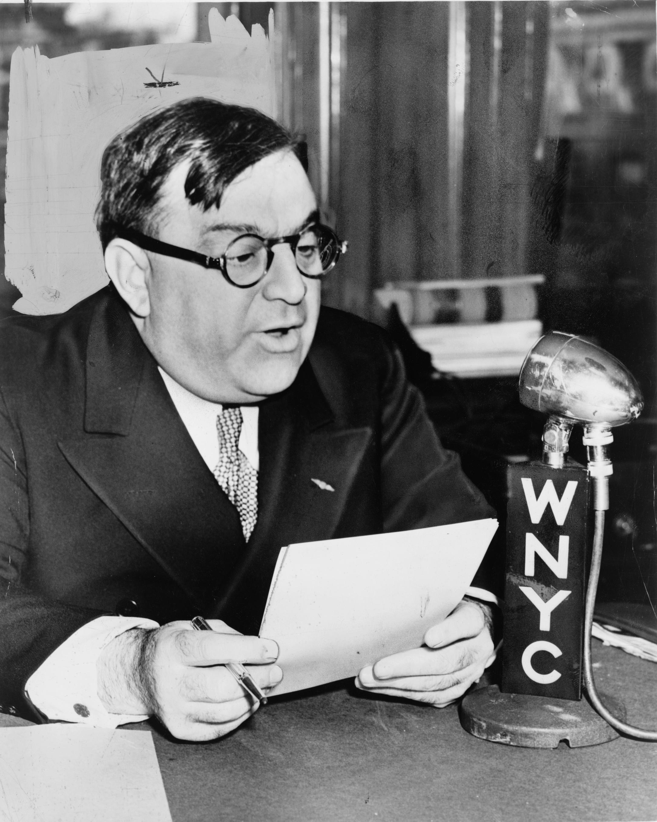 Fiorello H. LaGuardia, mayor of New York City. "Mayor La Guardia speaks over WNYC on Grade A milk from Budget Room."